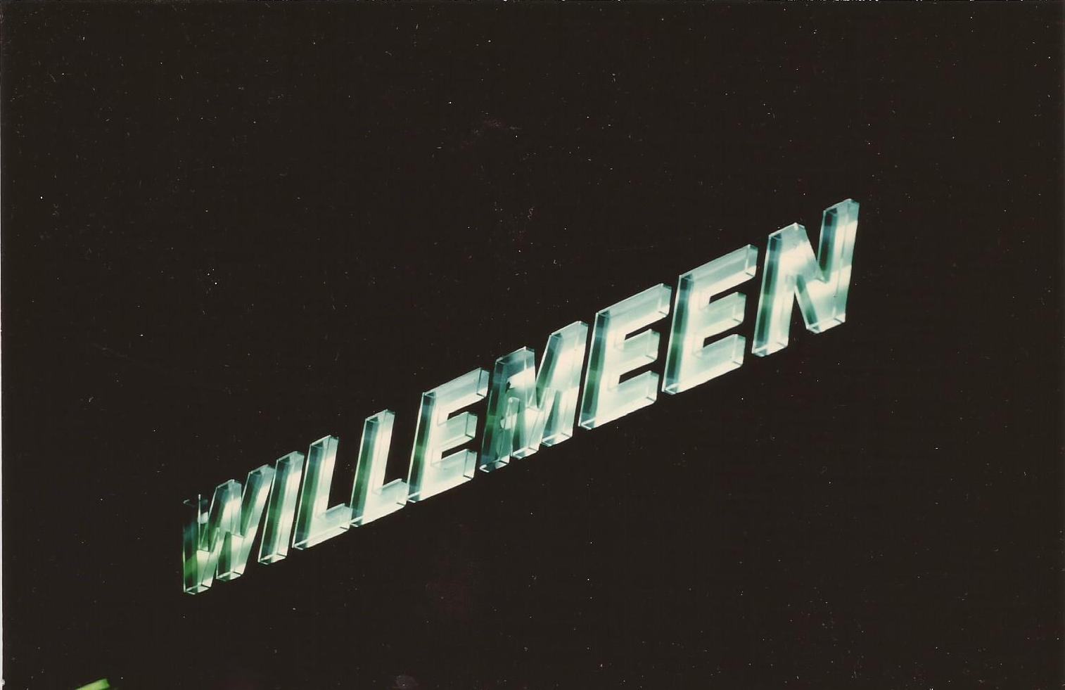 Willemeen uit 1987